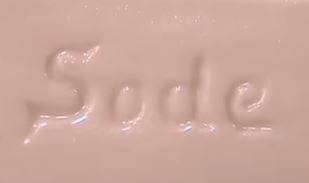 Signature of German sculptor and designer of ceramics Edmund Sode (1856—1922)